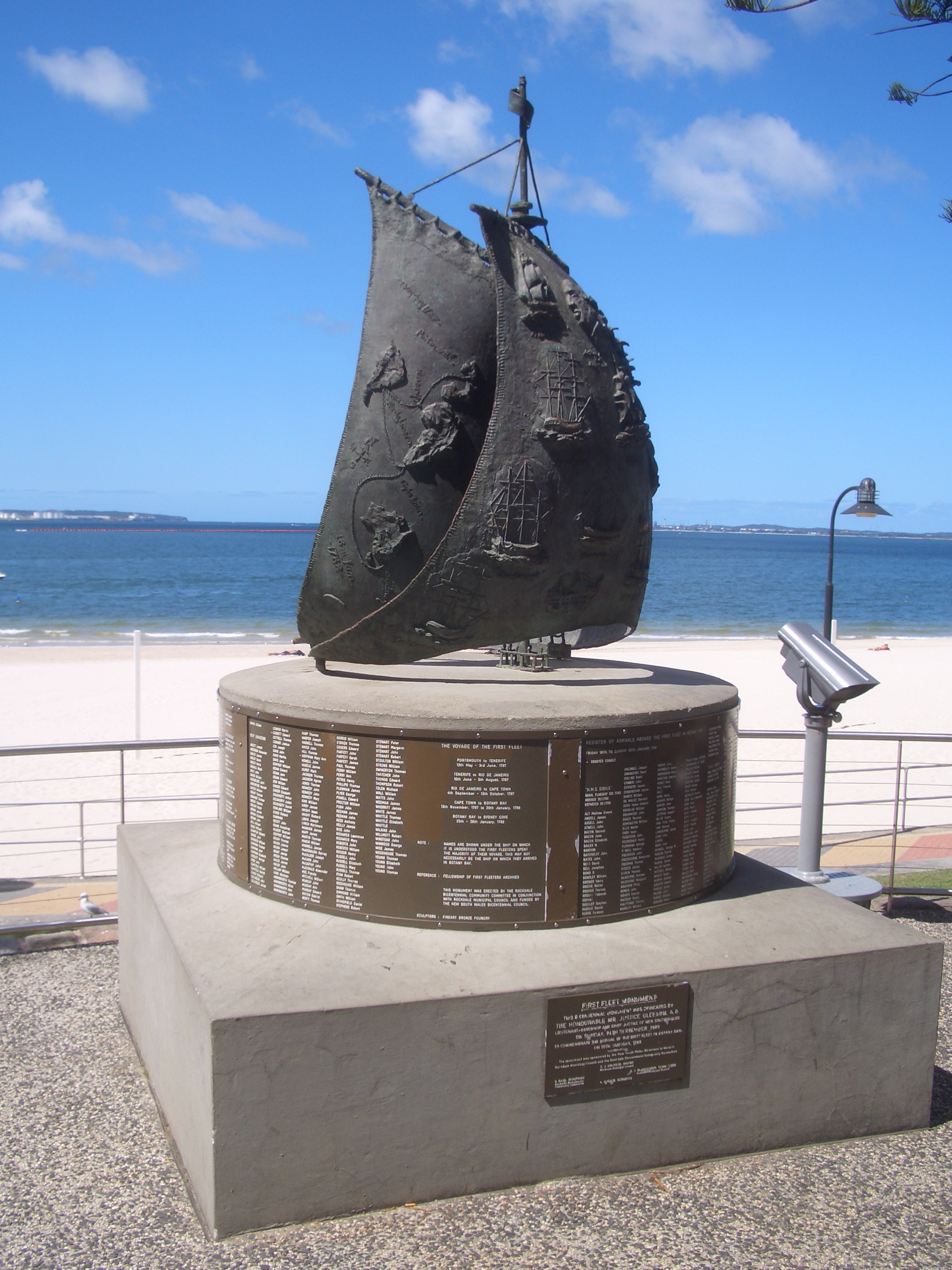 Bicentennial Monument to First Fleet at Botany Bay, Brighton-Le-Sands, New South Wales, Australia